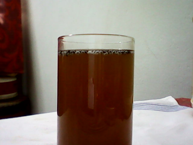 Sarbath is made out of the extracts of the roots of nannari a herb,which reduces bod heat. A little of Sabja seeds and lime ,having the above effect is also.added. Cooool;-p!!!!